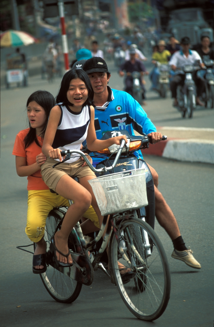 Dangerous situation on the street in Ho Chi Minh City, Vietnam